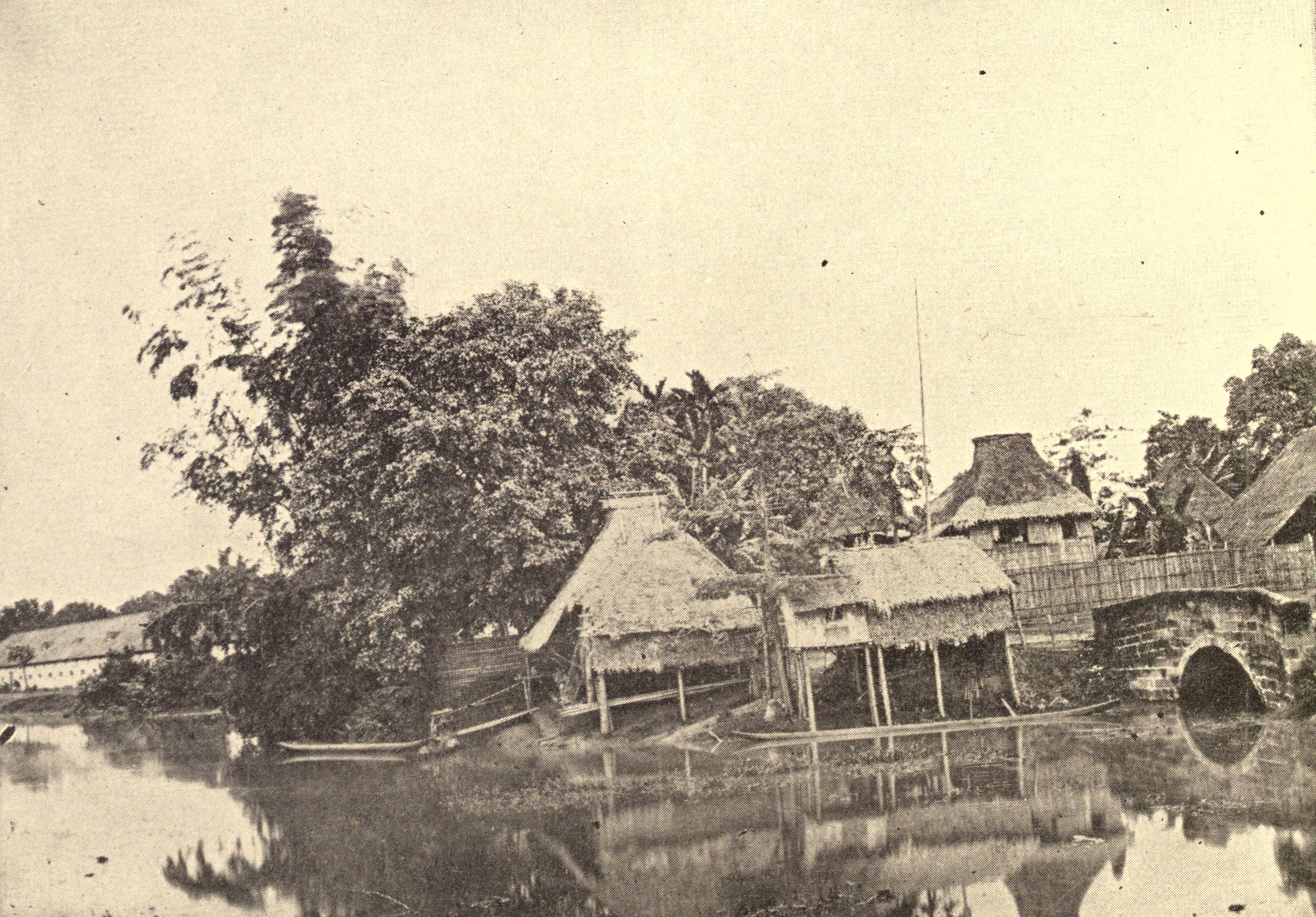 Original caption (cropped out): Pampanga, a village in the sugar country Description (cropped out): This historic village, on the island of Luzon, is memorable for the terrible massacre of the Chinese by the Spaniards at this point in the early history of the islands.